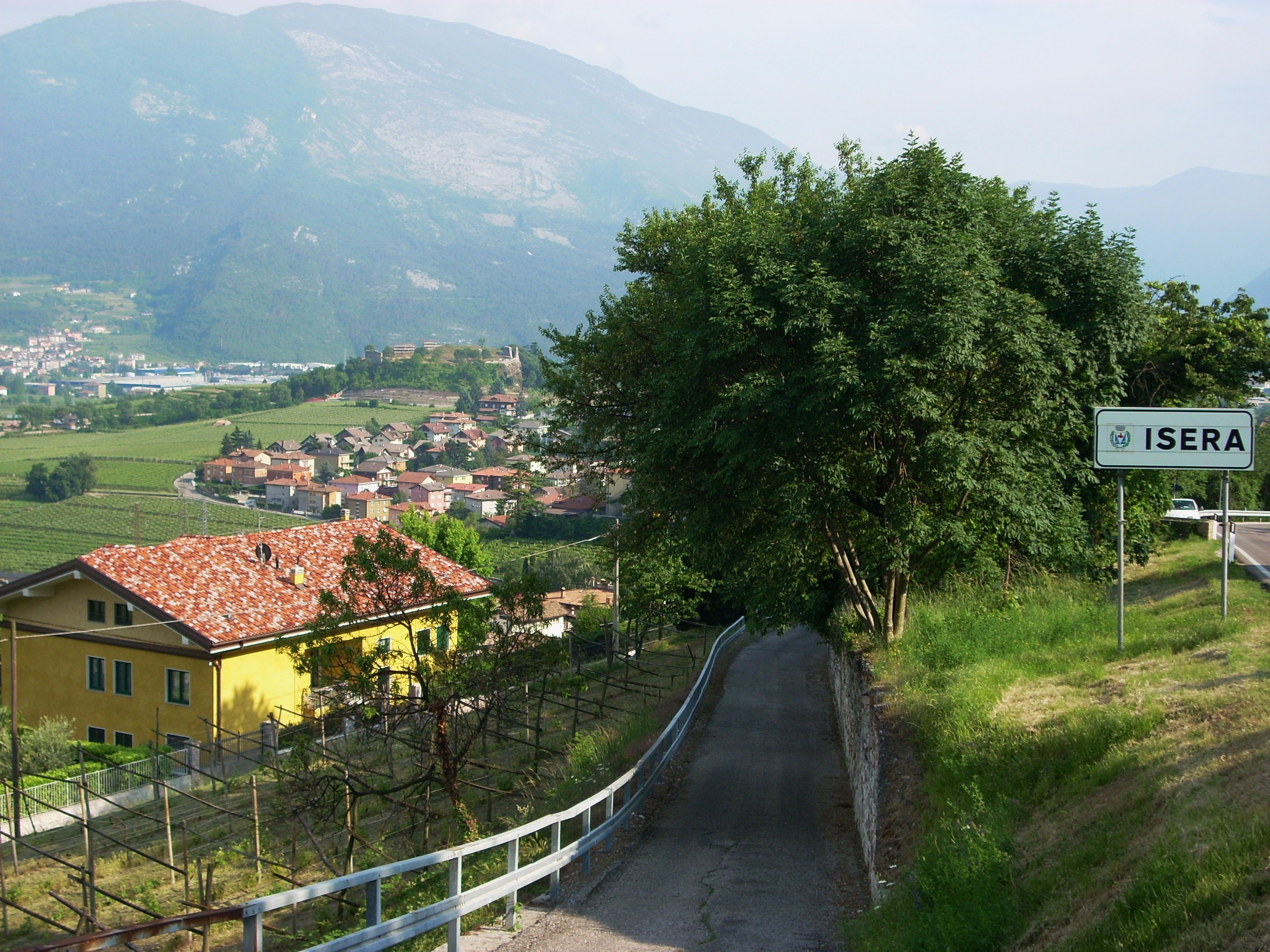 Isera (Province of Trento, Italy)